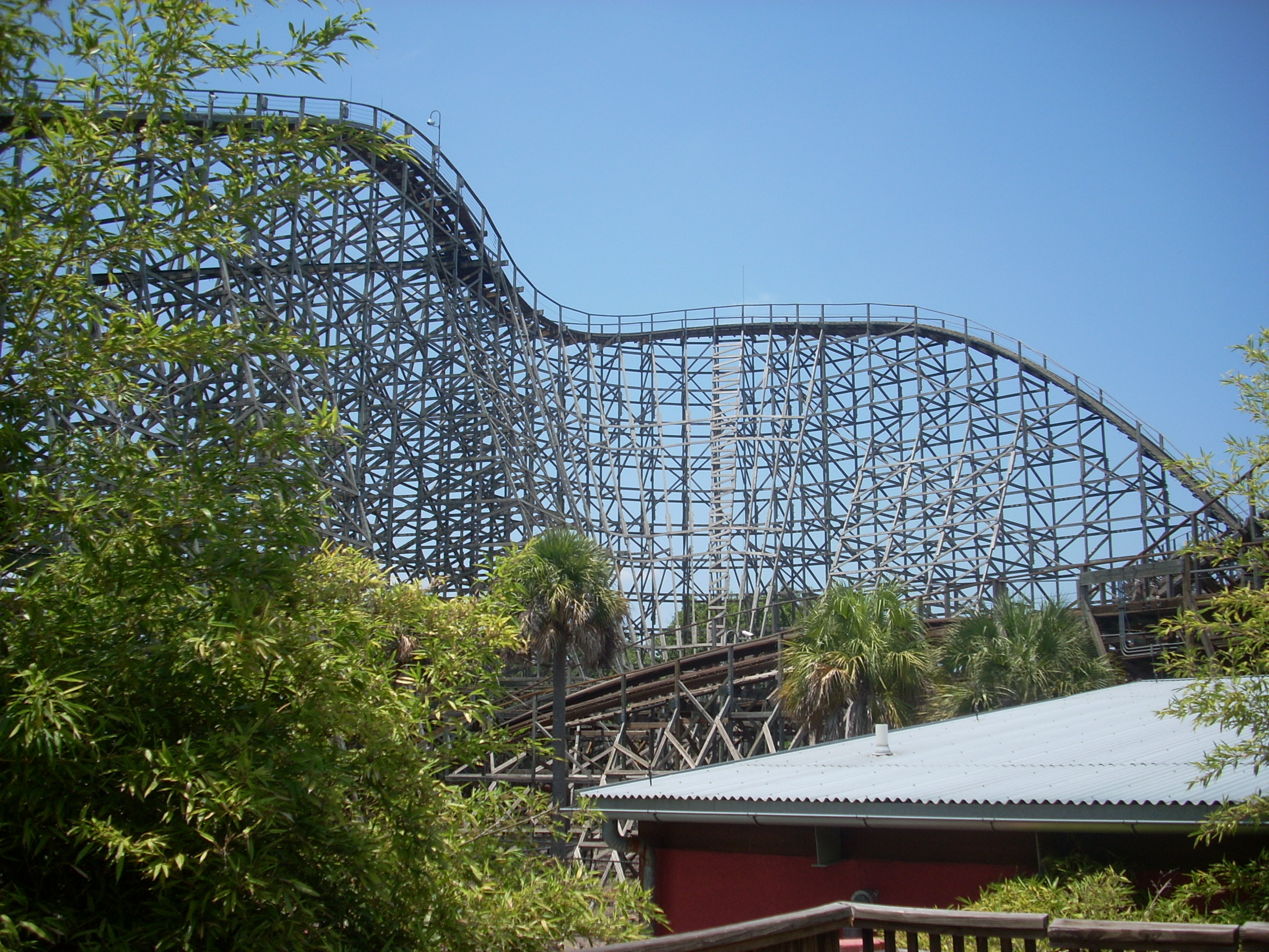 this ride rattled the shit out of our brains.